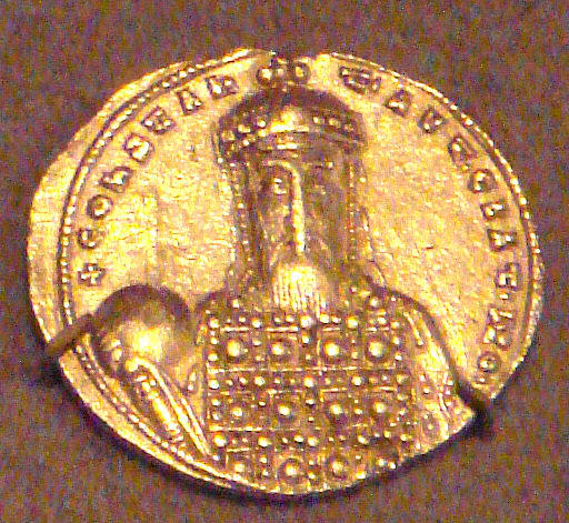 Gold Solidus of Constantin VII Porphyrogenetos, 913-959